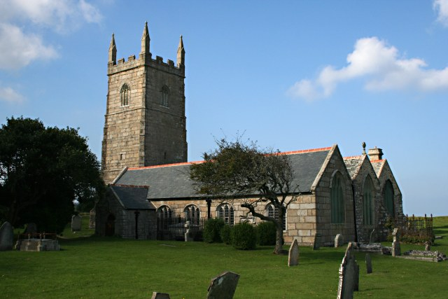 Lelant Church This church is dedicated to St Uny and is situated at the northern end of Lelant village above the dunes and next to a golf course.